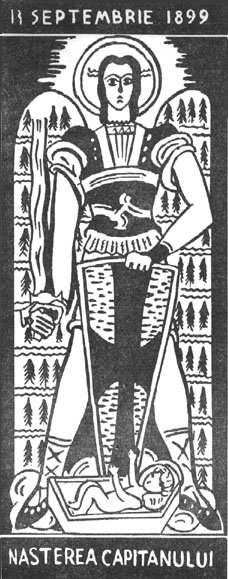 Naşterea ("Birth"), Romanian fascist propaganda engraving. The image shows the Archangel Michael, patron saint of the Iron Guard, witnessing the birth of Corneliu Zelea Codreanu. Codreanu's birthday, 13 September 1899, is inscribed at the top of the image. At the bottom, the legend NASTEREA CAPITANULUI ("The Captain's birth").